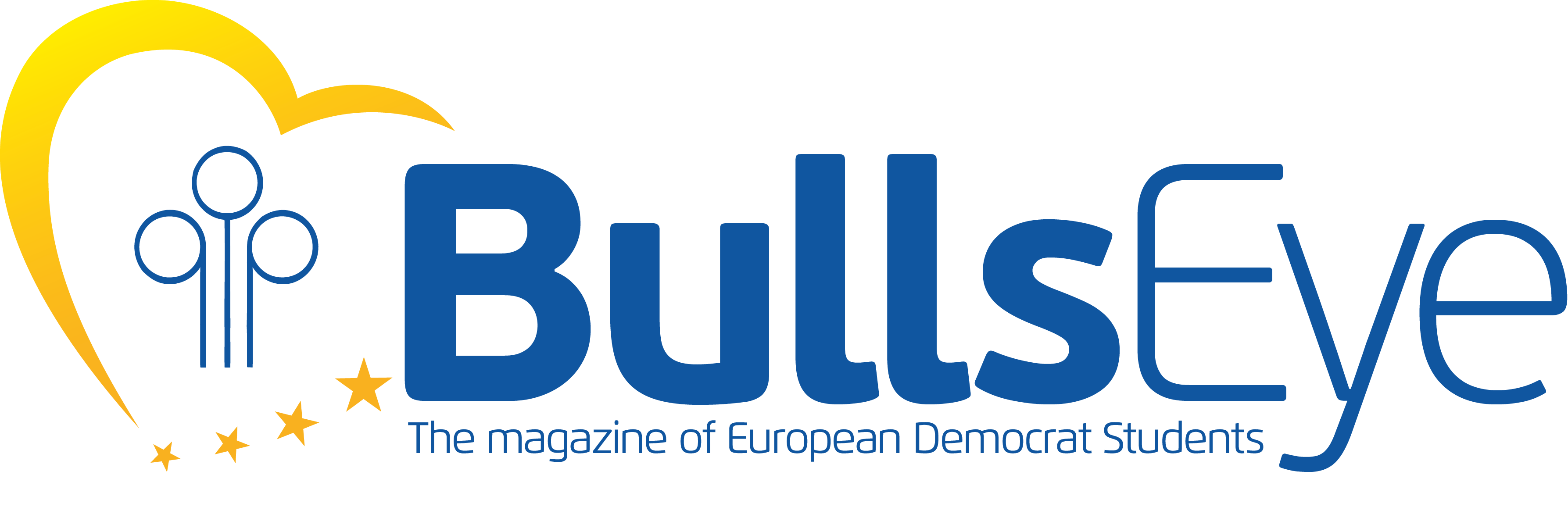 In 2019, the European Democrat Students adopted a new logo for its magazine during the reshuffle of the editorial designing line.